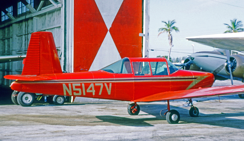 Varga Morrisey 2150 N5147V at Palm Beach County Airpark in 1972